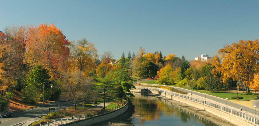 My own pictures